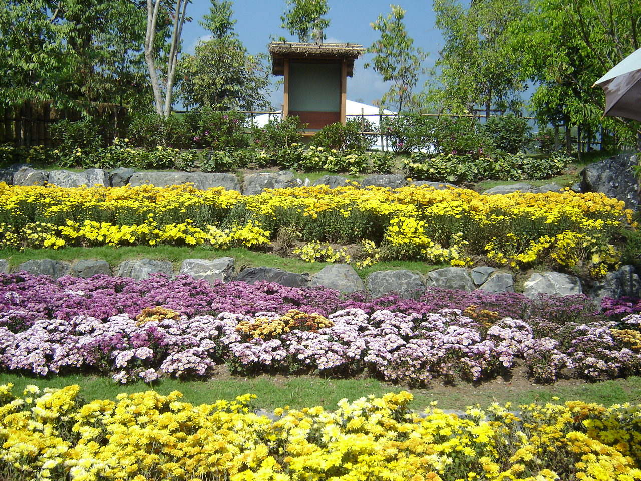 in Royal Flora Expo 2006, Chiangmai, Thailand